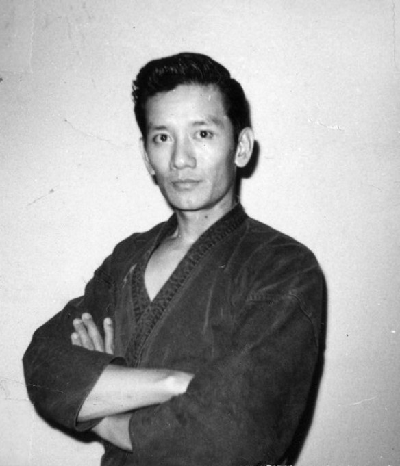 young Master Maung Gyi, a Burmese martial artist that introduced Bando into the United States.